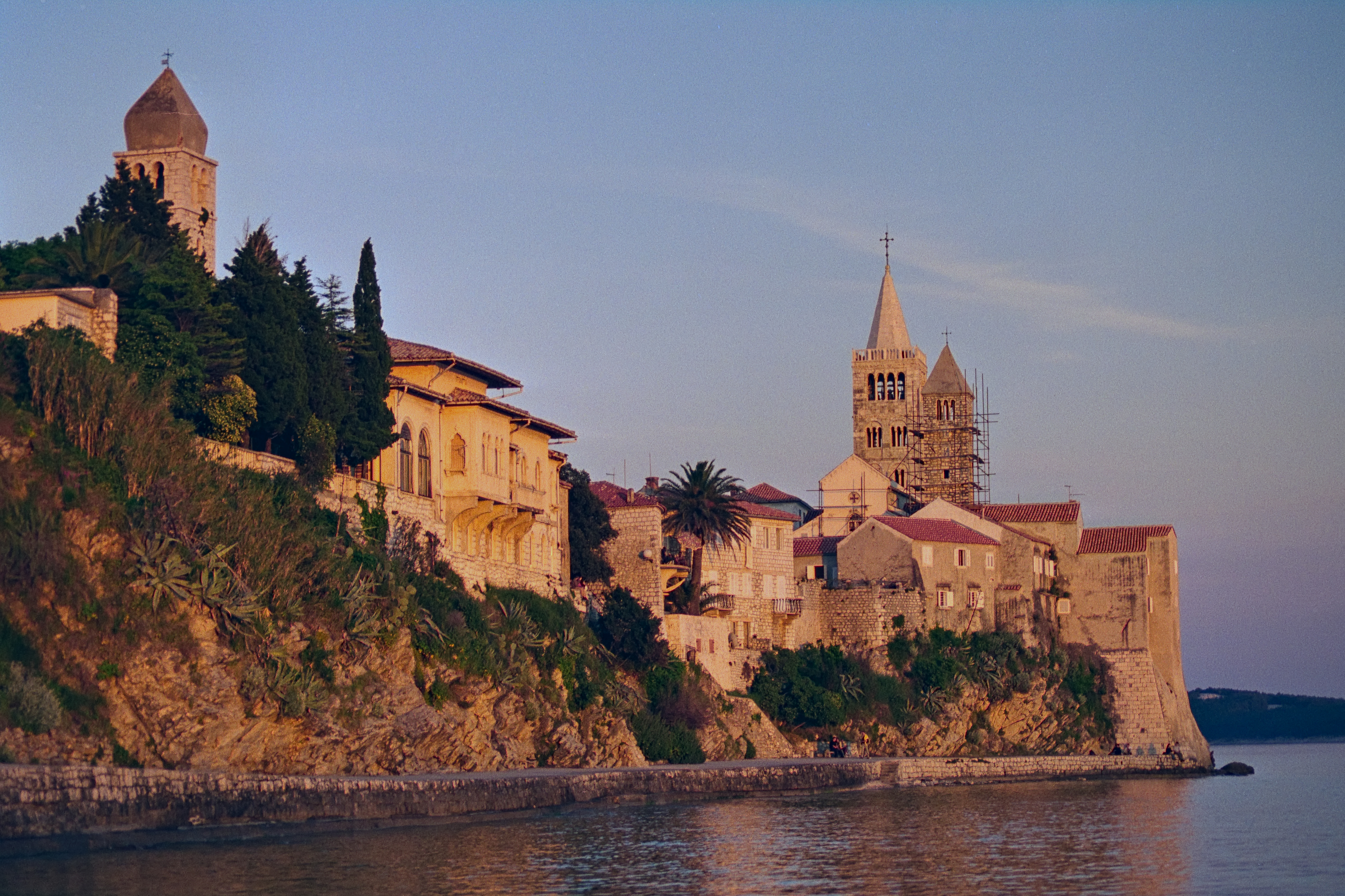 Description: Historic town center of Rab on Rab island, Croatia. own image, taken April 29, 2001 Photographer: Herbert Ortner, Vienna, Austria